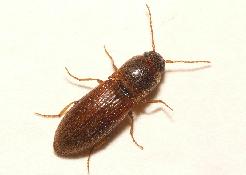 Agriotes sputator. Location: The Netherlands - Rhenen - Blauwe Kamer